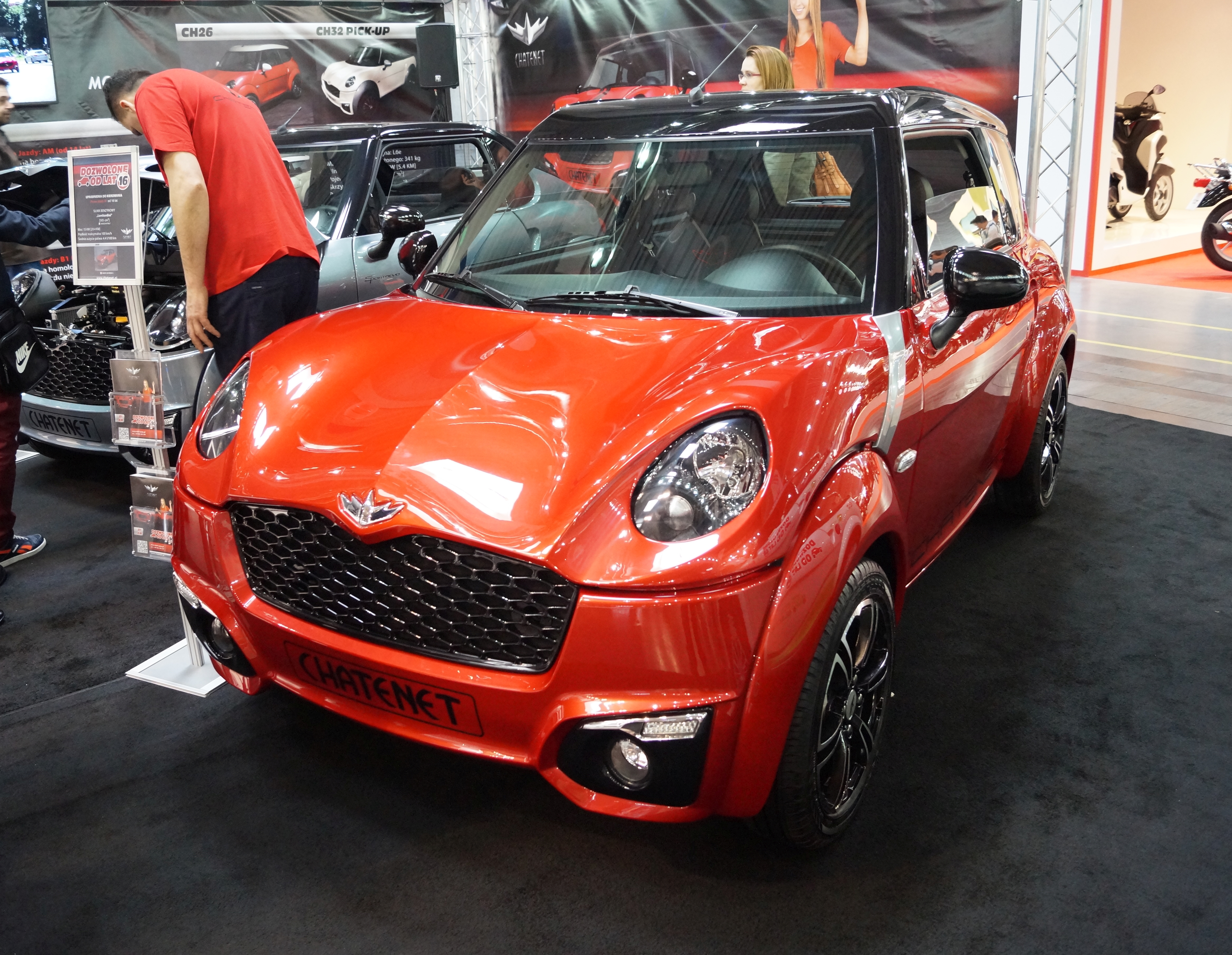 The making of this document was supported by Wikimedia Polska Association, within Wikigrant no. WG 2015-19. English | polski | +/− Przód Chatenet CH30 na Motor Show Poznań 2015